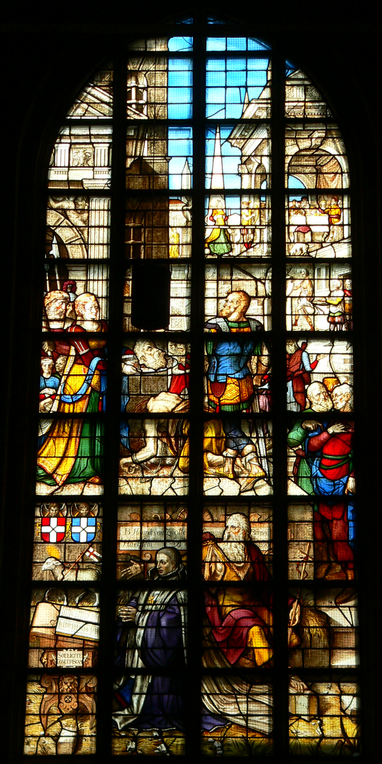 The stained-glass window number 19 in the Sint Janskerk at Gouda/Netherlands: "The beheading of St. John the Baptist"